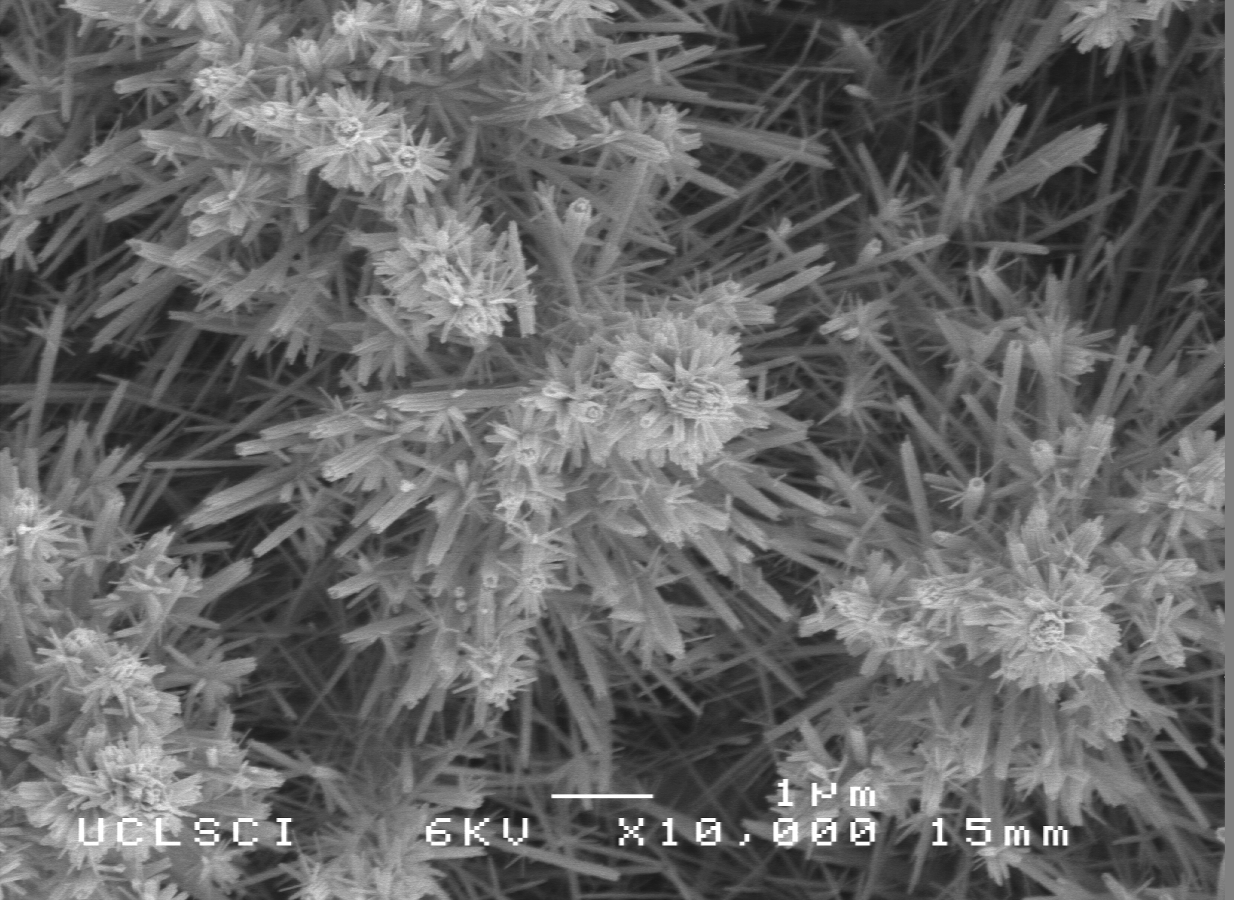 Catalytic nanomaterial with a flower-shaped structure, science creates miracles